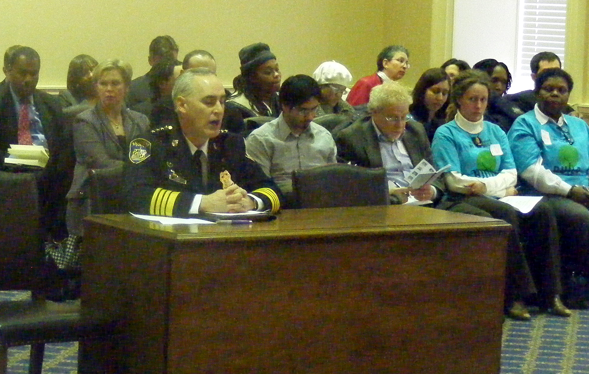 Baltimore City Police Commissioner Fred Bealefield address the Baltimore City House Delegation